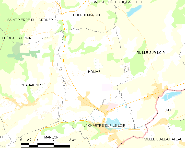 Map of French municipality